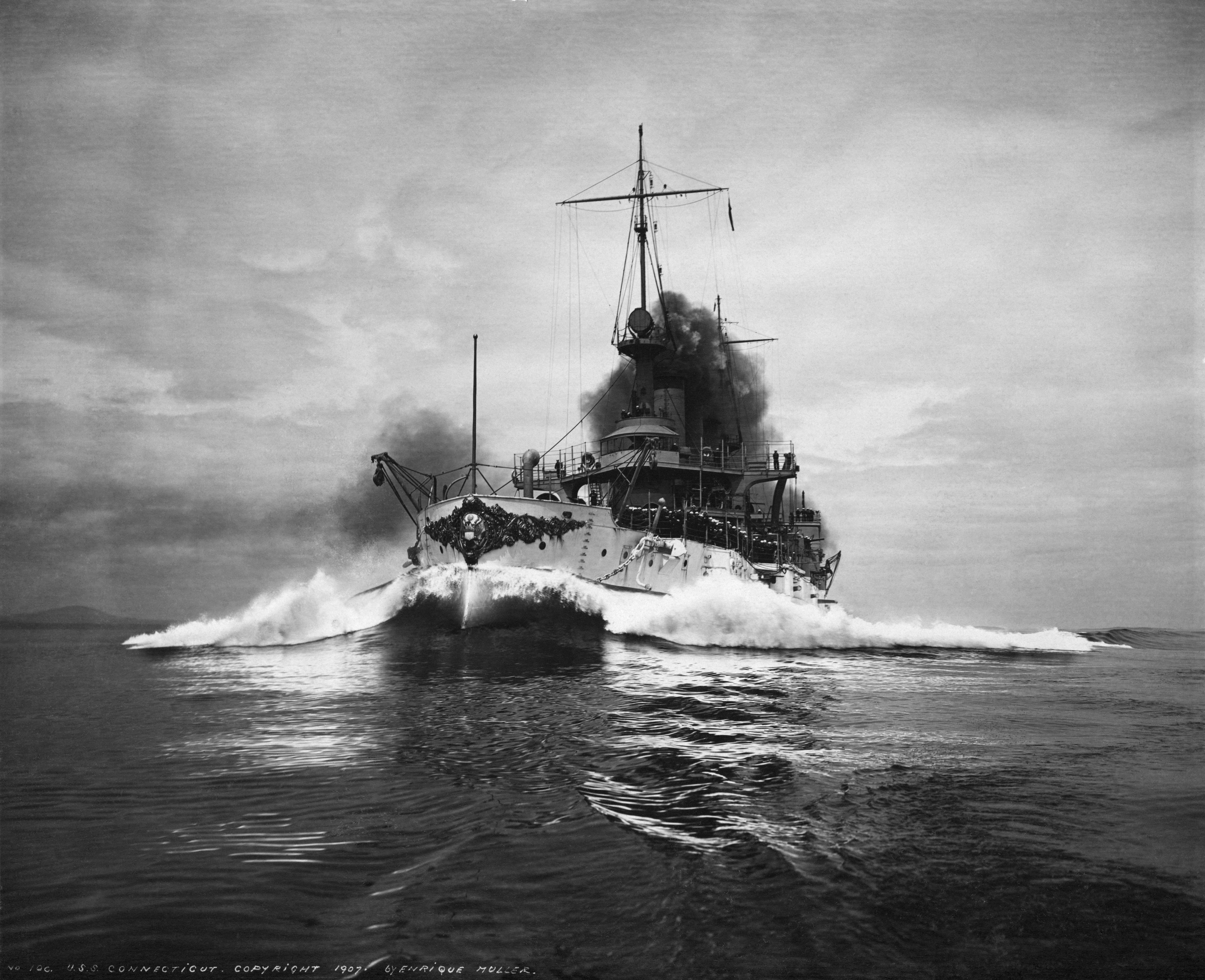 (Battleship # 18) Running speed trials off the Maine coast, 1906. Photographed by Enrique Muller. Note sailors crowding the rails, watching the photographer's boat, which is about to be swamped by the battleship's bow wave. U.S. Naval History and Heritage Command Photograph.